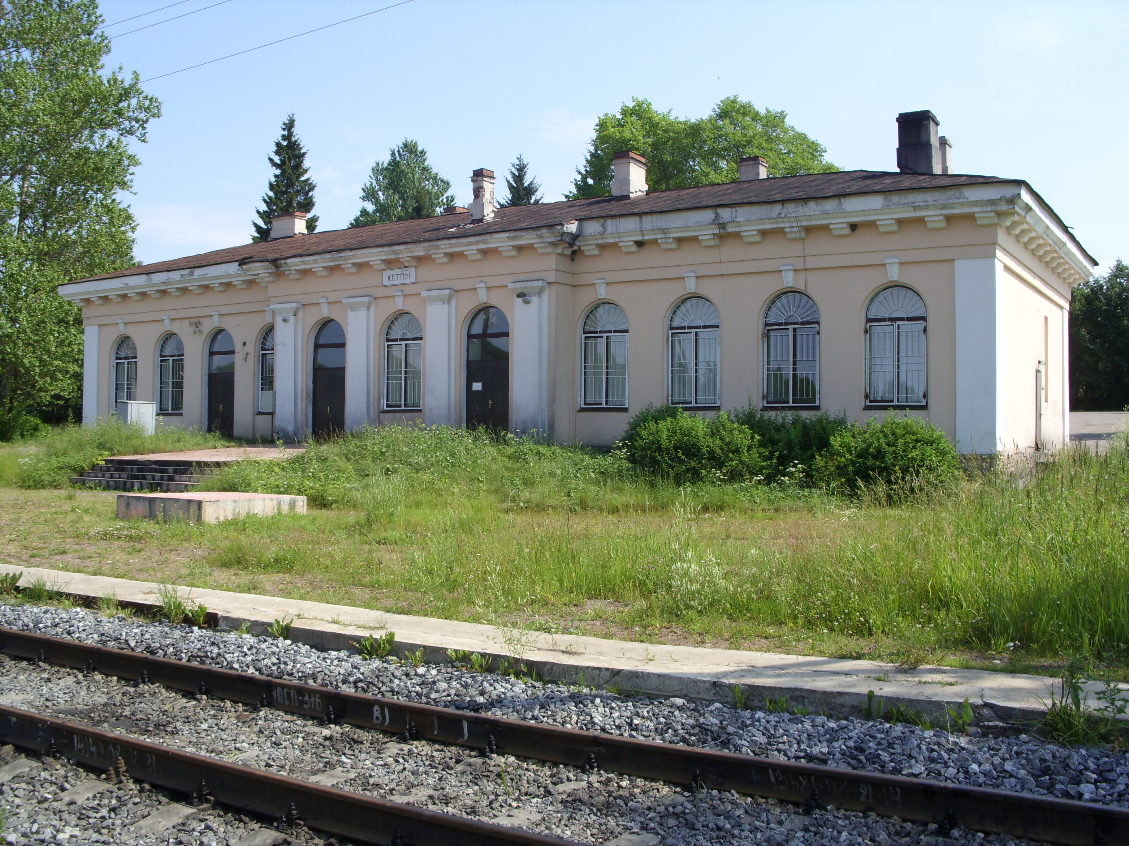 Leningradskaja obl. Kotly. Vokzal